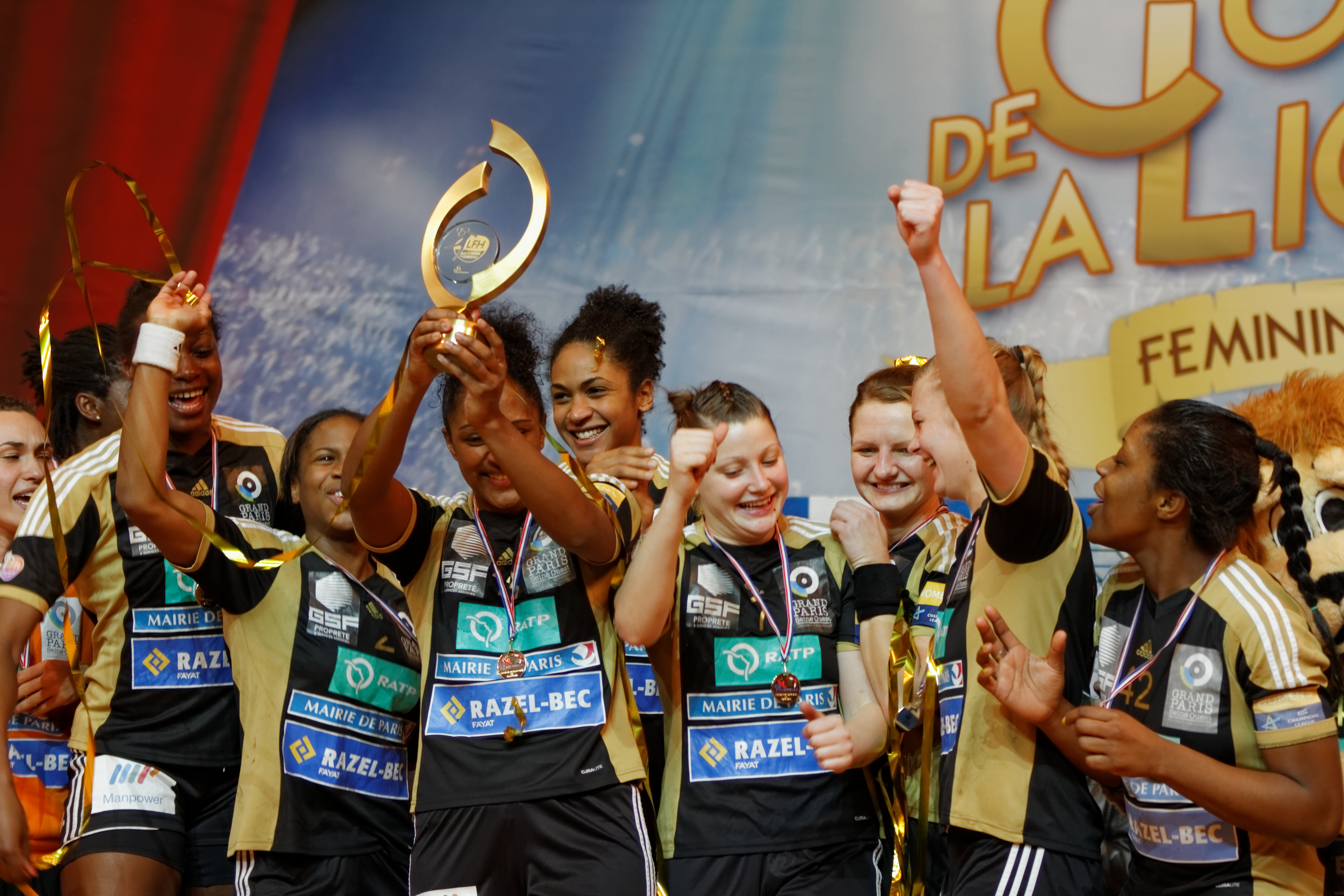 Final of the Women's handball French cup 2013. Handball Cercle Nîmes vs Issy Paris Hand, stadium Pierre-de-Coubertin at Paris.